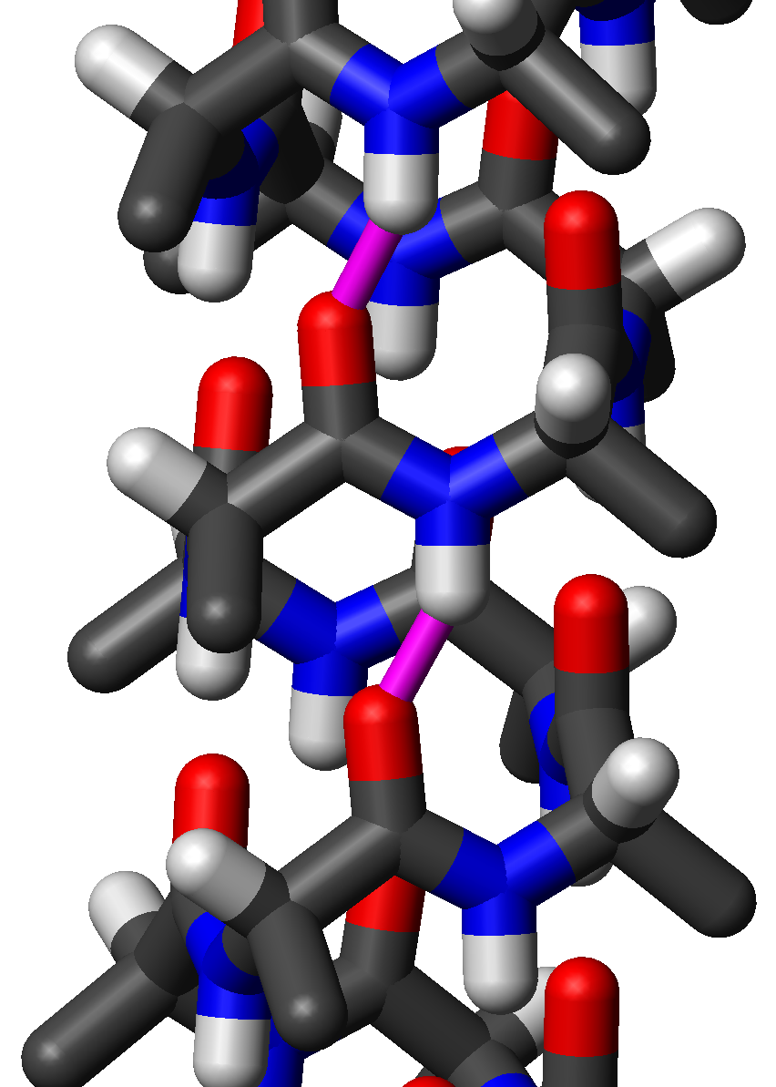 Close-up sideview of a "stick" model of a pi helix of poly-alanine using the dihedral angles φ=-55° and ψ=-70° and the Engh&Huber bond geometry. Two hydrogen bonds are highlighted in magenta; the O-H distance is 1.65 Å (165 pm). The PDB file was made by me on 18 October 2006 using my own software and visualized by me using MOLMOL. I release this image under the GFDL.